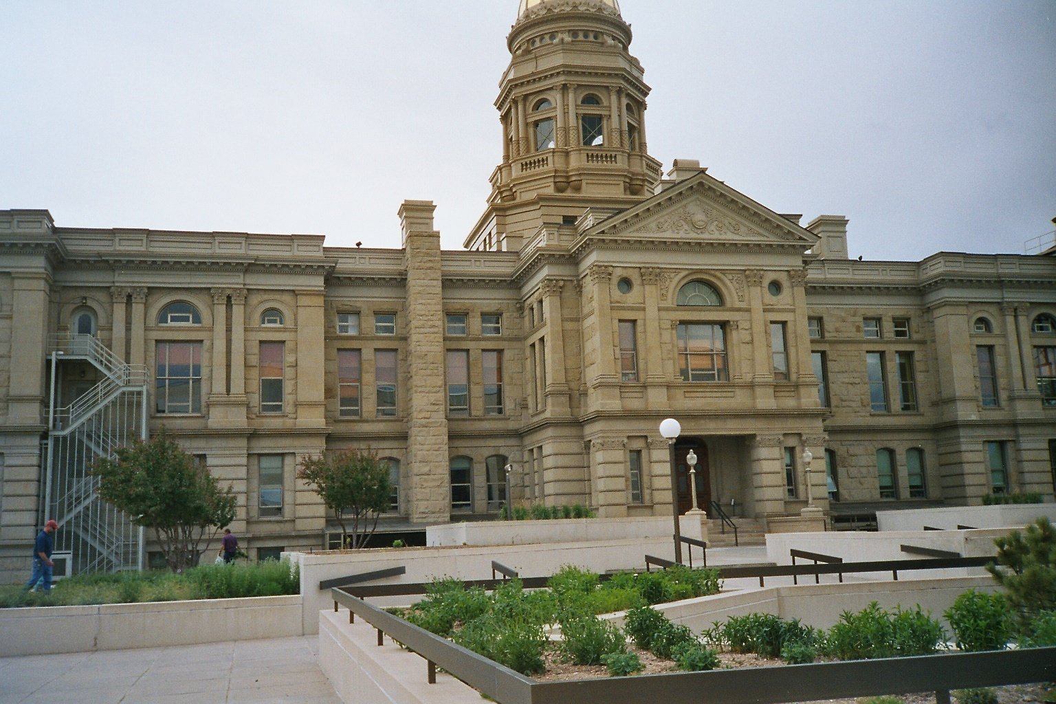 Capitol Cheyenne Wyoming